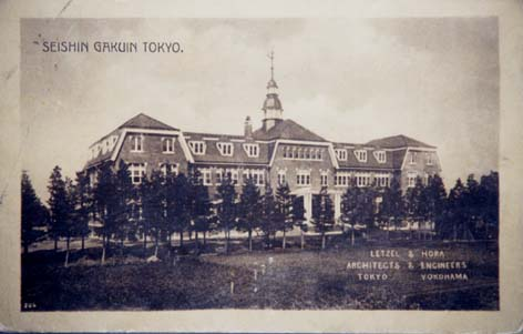 Escuela de mujeres Seishin, obra de Jan Letzel